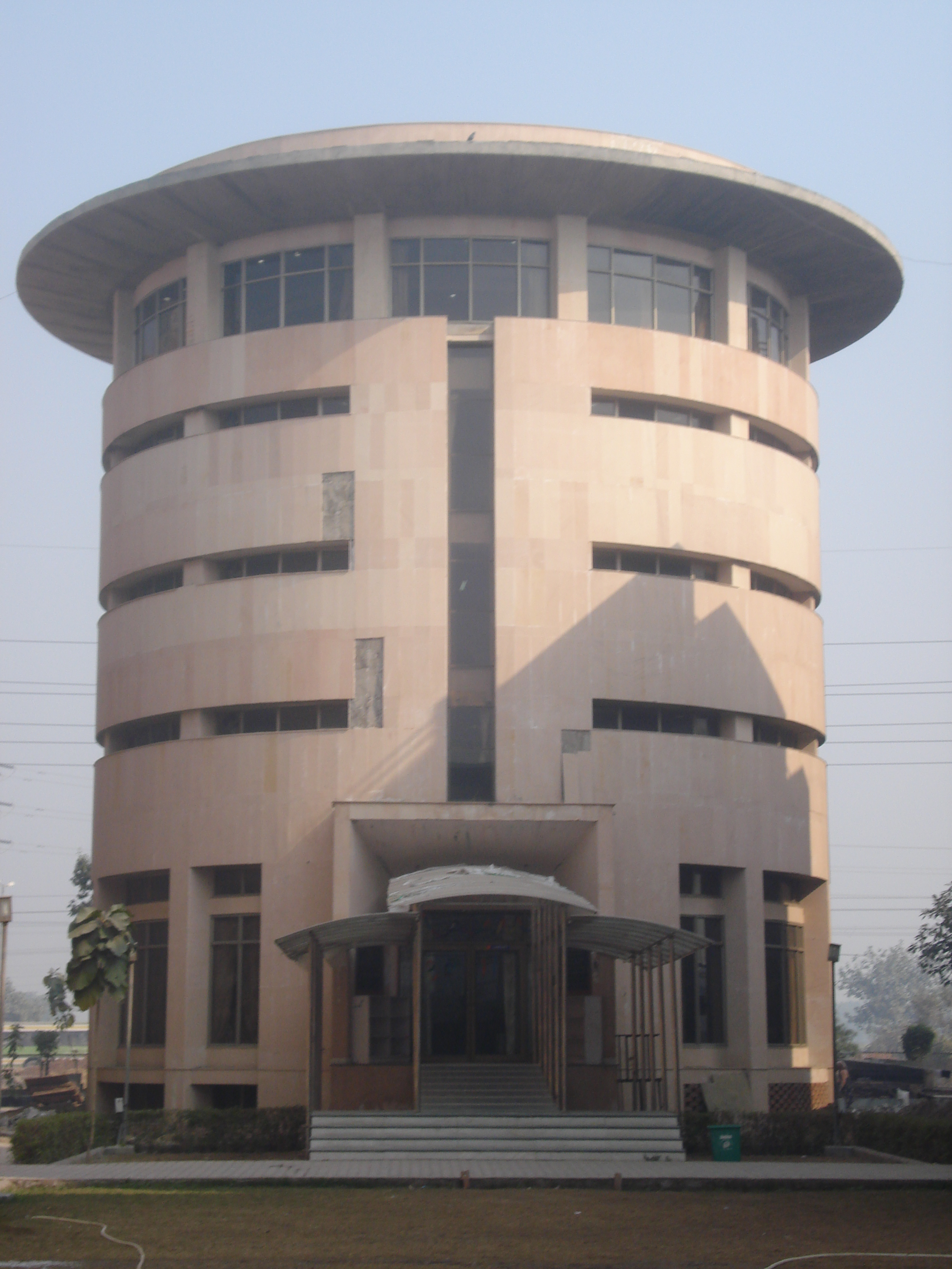 MAIT Library